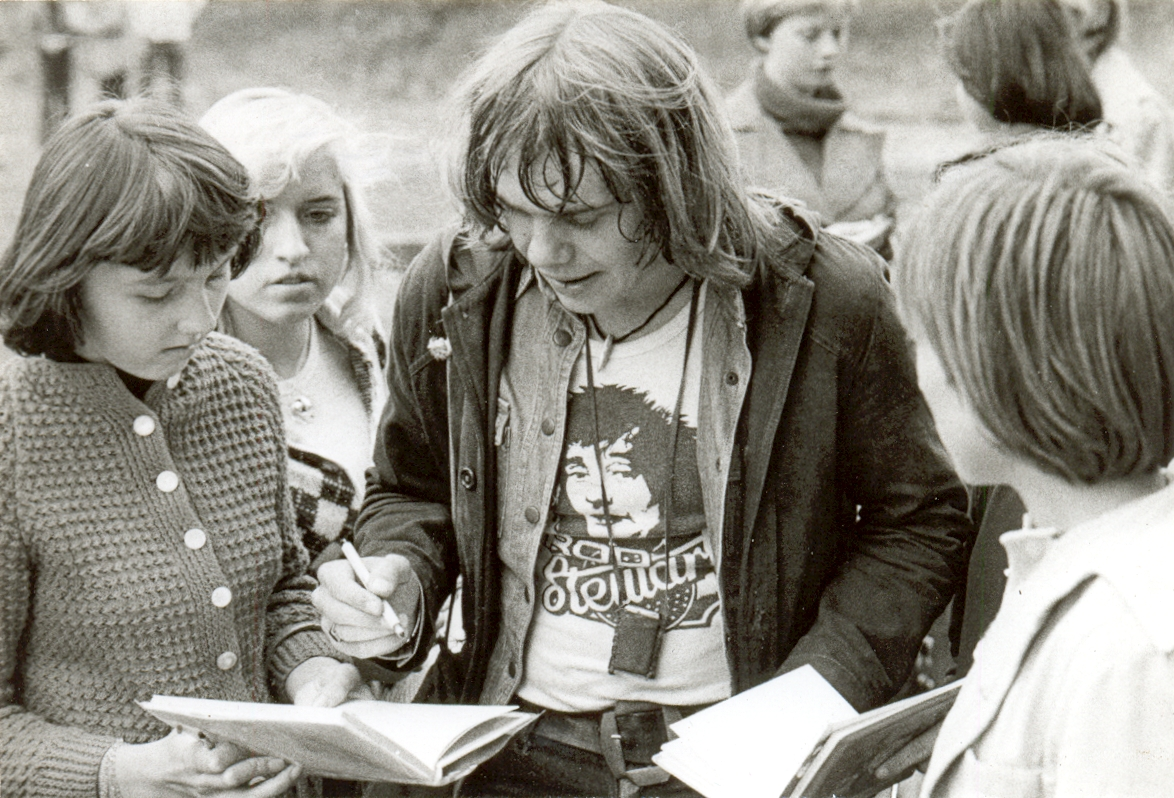 Czech musican Jiří Schelinger